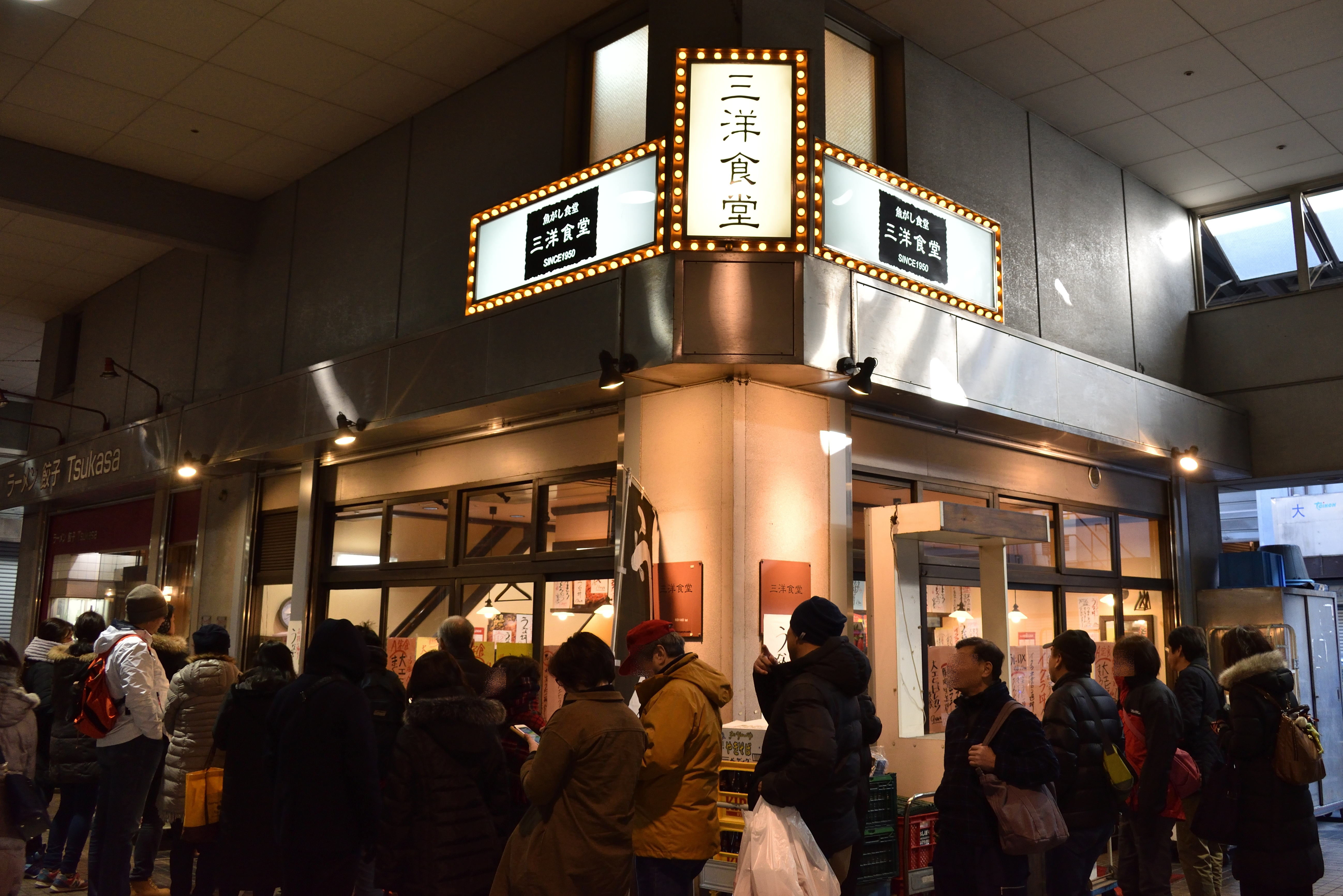 San-yō Shokudō, a casual restaurant in the Ōta Wholesale Market in Ōta, Tokyo, Japan.